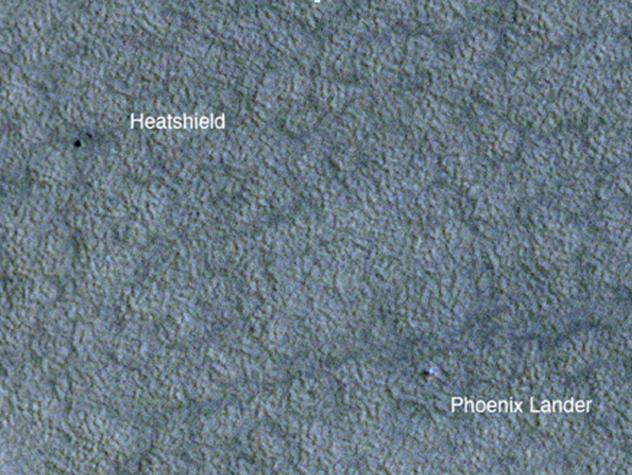 Phoenix Lander from HiRISE, located at 68.2 degrees north latitude and 234.3 degrees east longitude. Image was taken by the Mars Reconnaissance Orbiter's HiRISE. The HiRISE camera was built by Ball Aerospace and Technology Corporation and is operated by the University of Arizona. Image courtesy NASA/JPL/University of Arizona.